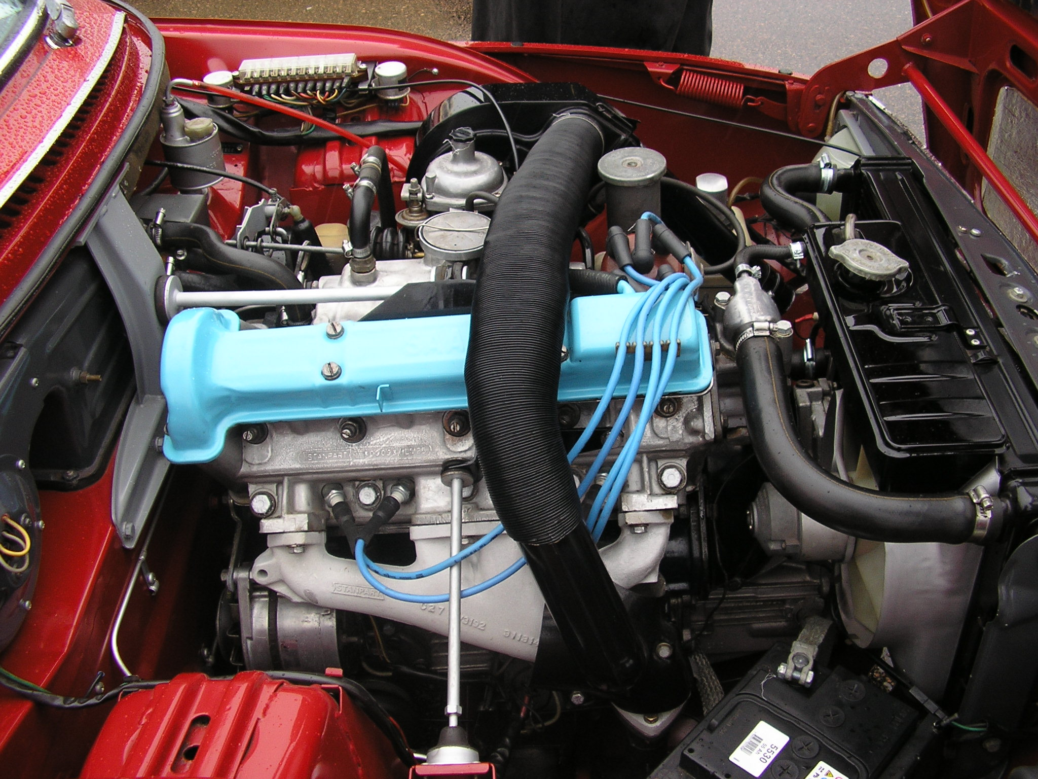 The engine bay of a 1969 SAAB 99 at the International SAAB Club Meeting 2006. The owner spent six years restoring the car.